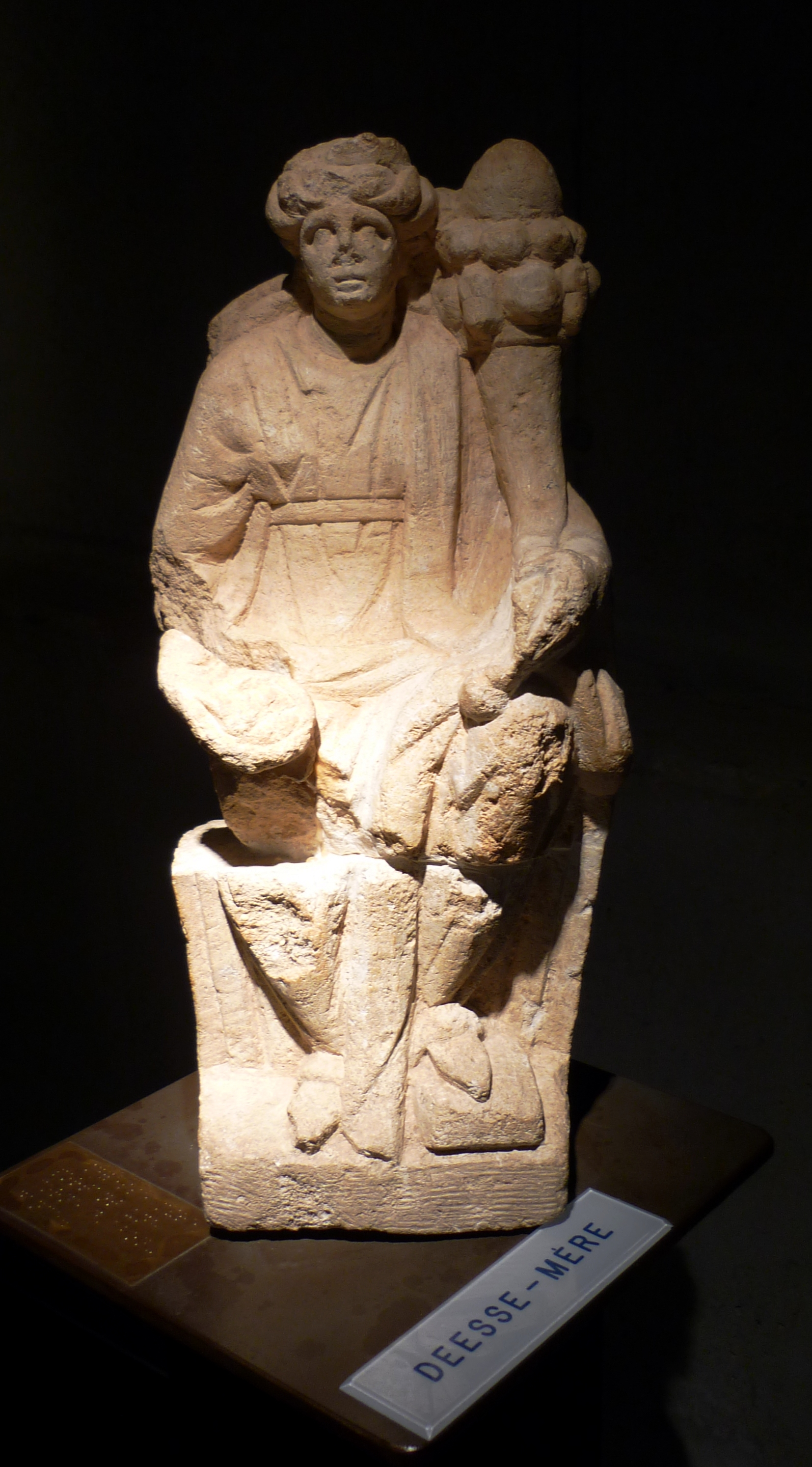 Gallic statue of mother Goddess, Argentomagus museum, France